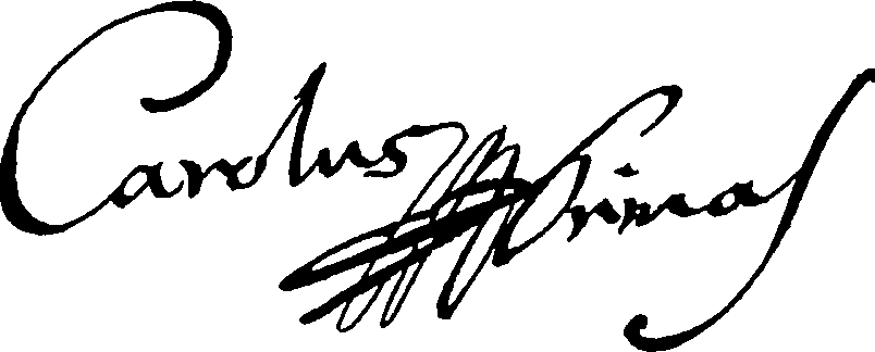 signature of Karl Ambrosius von Habsburg-Este, archbishop of Esztergom.